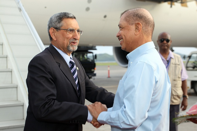 The President of Cape Verde Jorge Carlos Fonseca (left) and the President of Seychelles James Michel at the Seychelles International Airport during Fonseca visit to Seychelles.